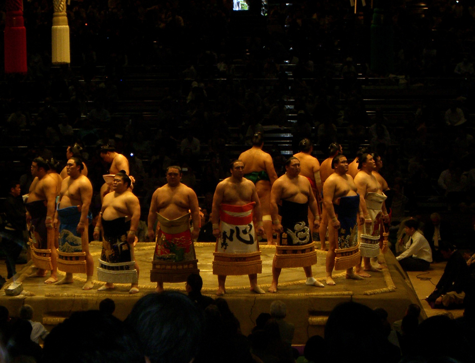 Nakairi (halftime) of the 8th day of 2011 May Giryō-Shinsa Basho.